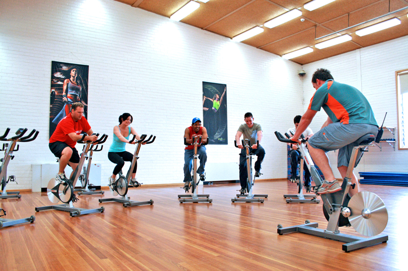 Indoor Cycle Class at a Gym